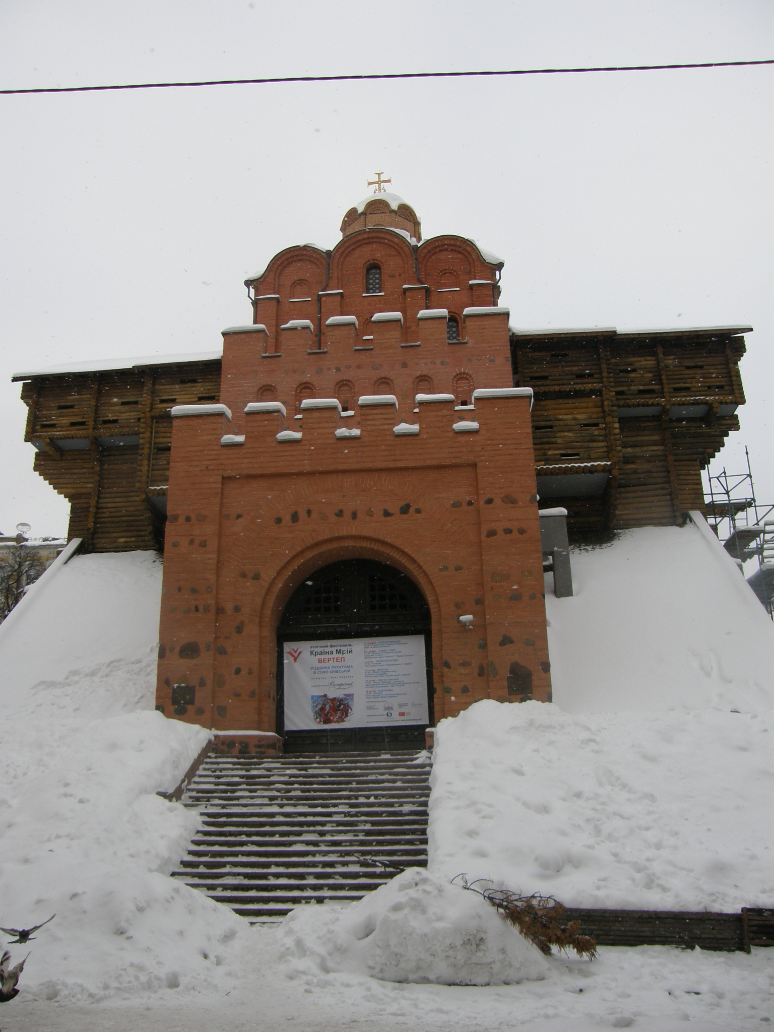 Golden Gate in Kiev